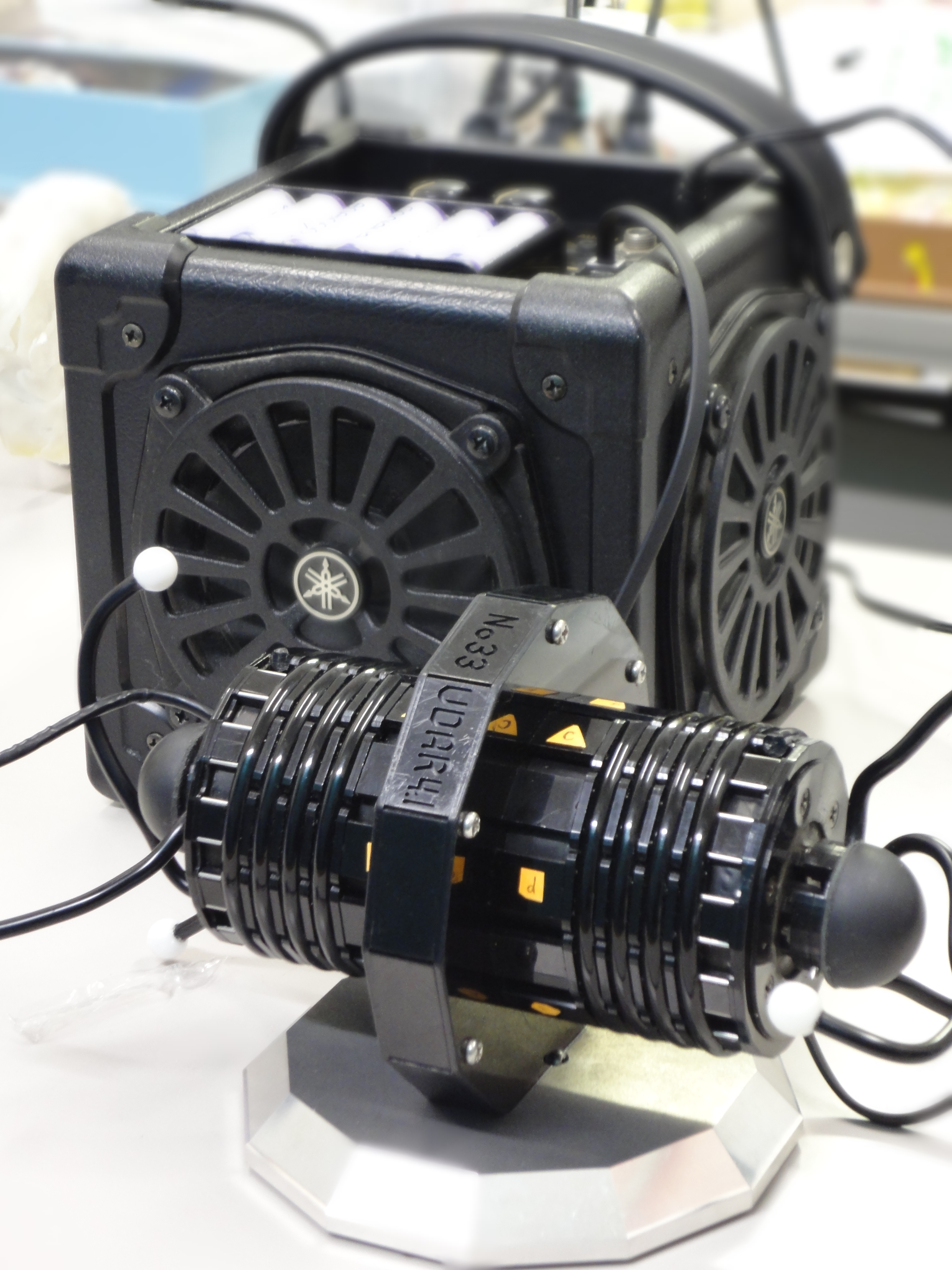 Electronic musical instruments "Udar"